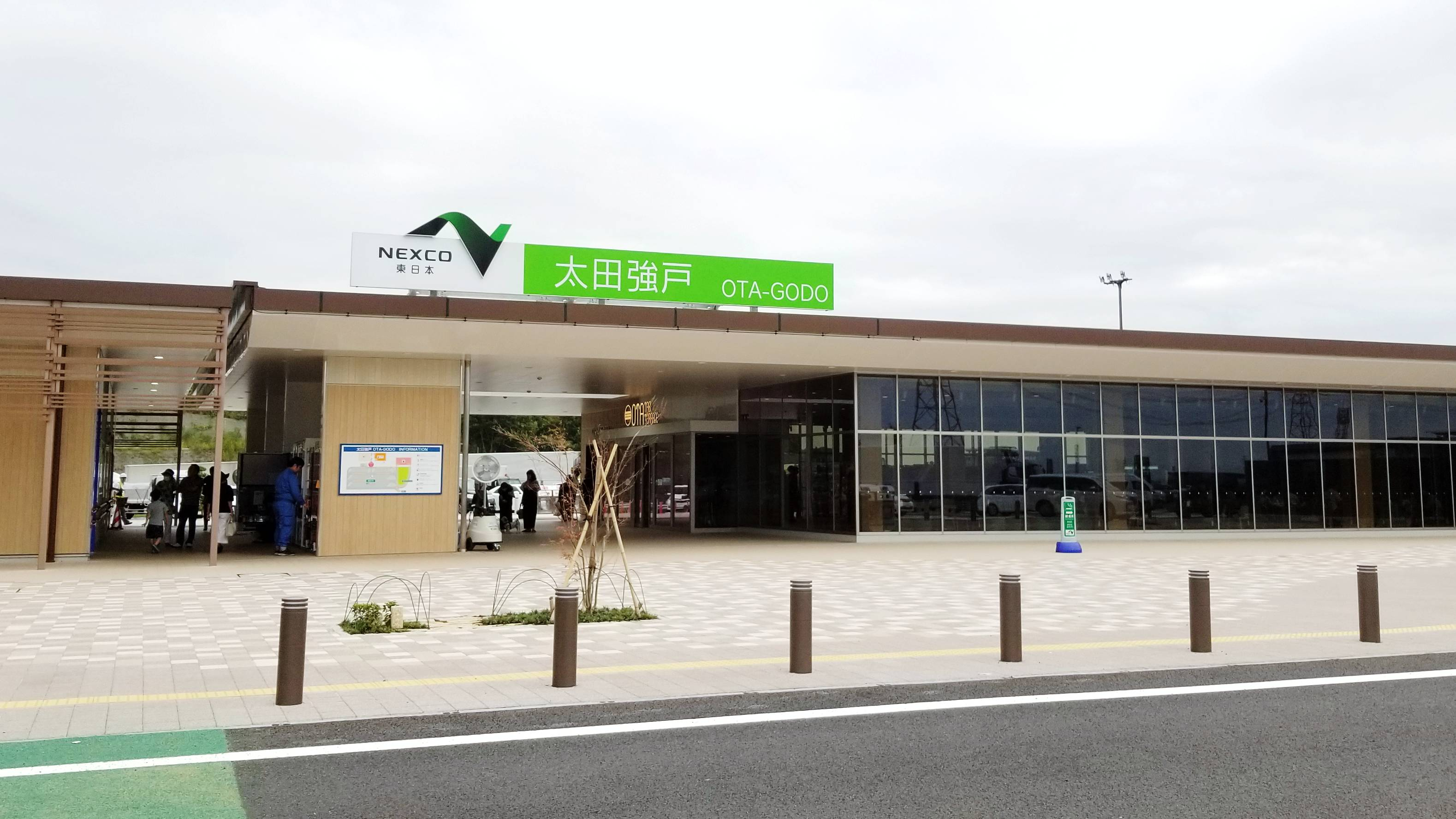 Kita-Kanto Expressway Ota-Godo Parking Area.